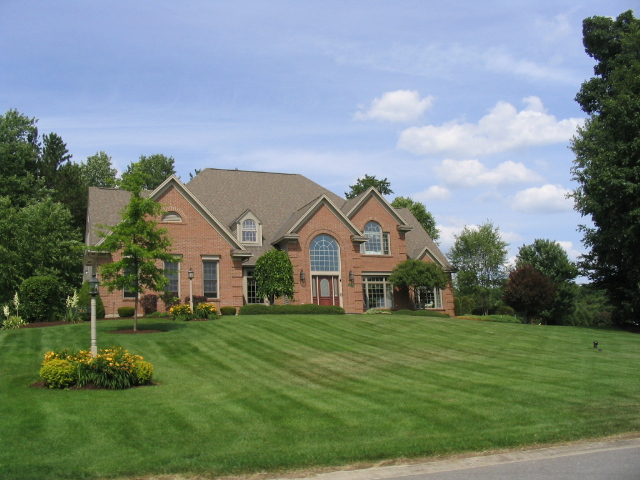 photo of an Upscale in Lysander, NY, taken by me on July 10, 2007